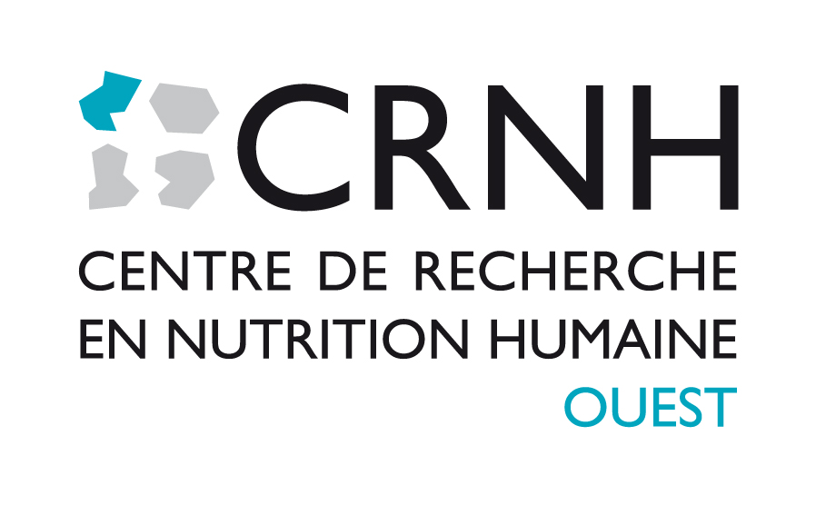 Logo CRNH Ouest